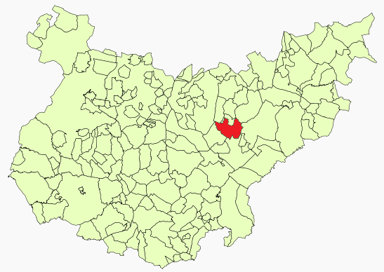 Quintana de la Serena